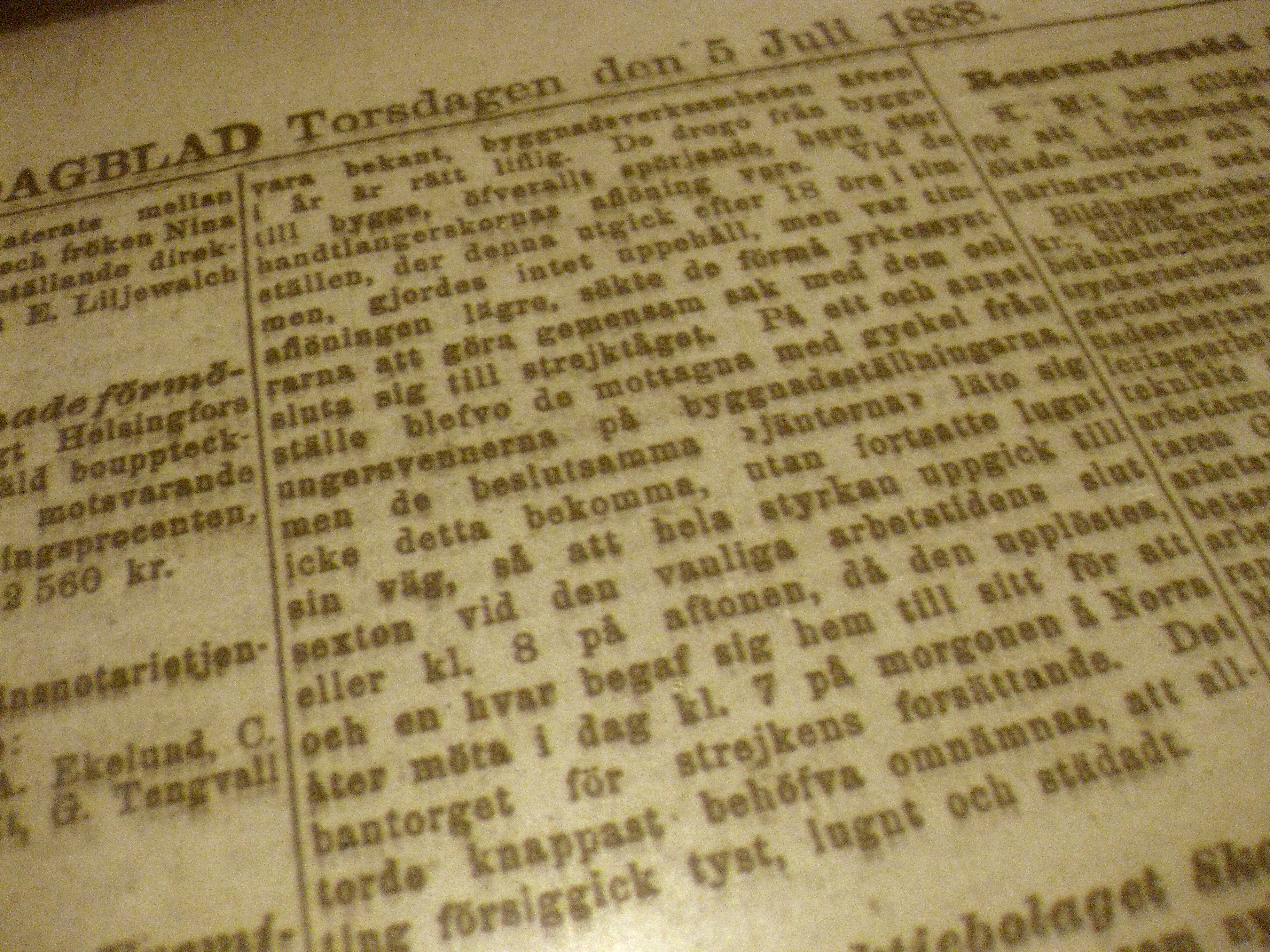 News on women construction workers, "Mursmäckor", strike 5th July 1888 in Stockholm.